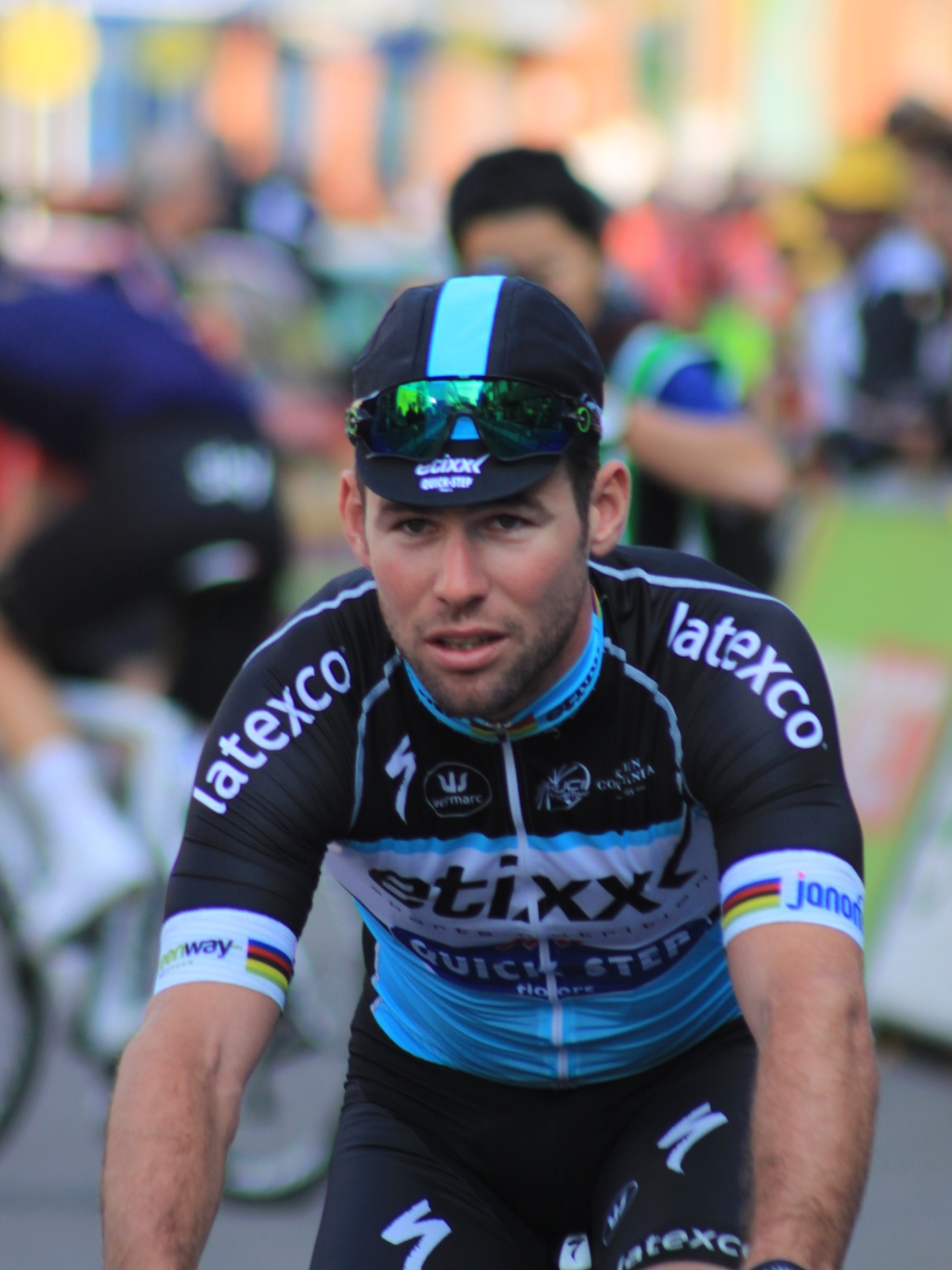 Marl Cavendish prepares to start Stage 6 of the 2015 Tour of Britain in Stoke-on-Trent. He failed to complete this stage after an accident involving a parked van.